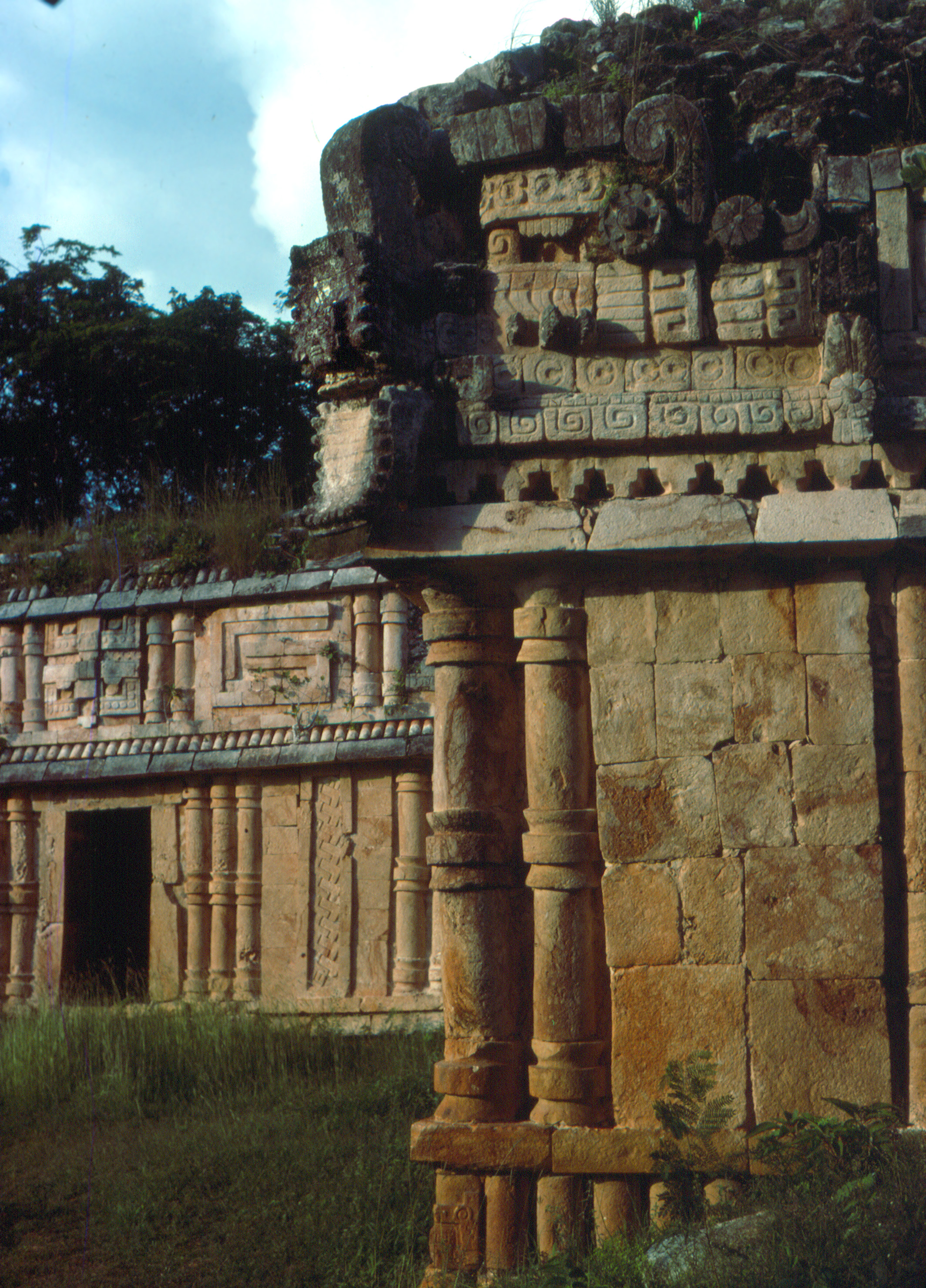 Labná, Yucatan, Mexico: Palace, east wing, corner